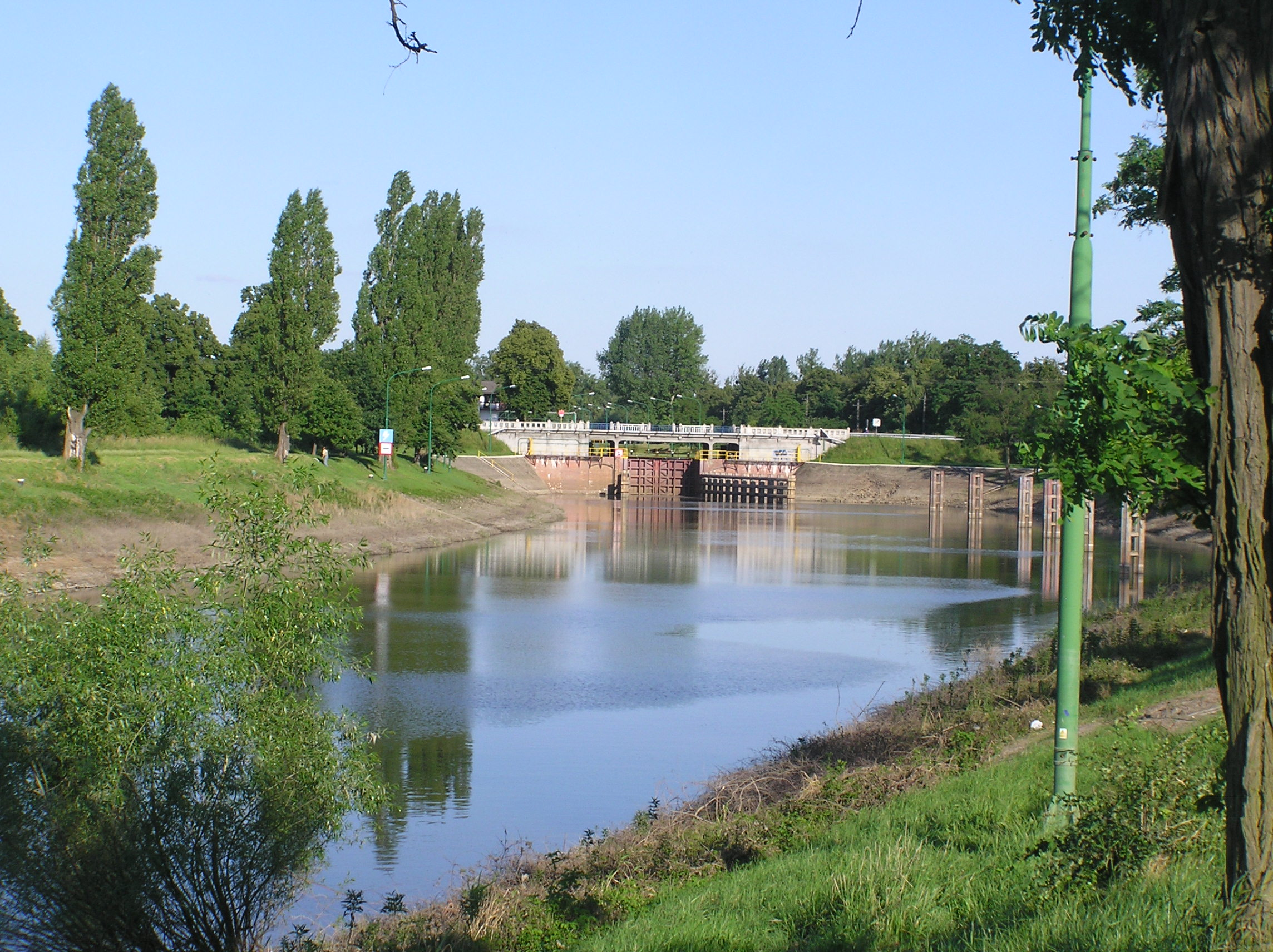 Oława II Lock